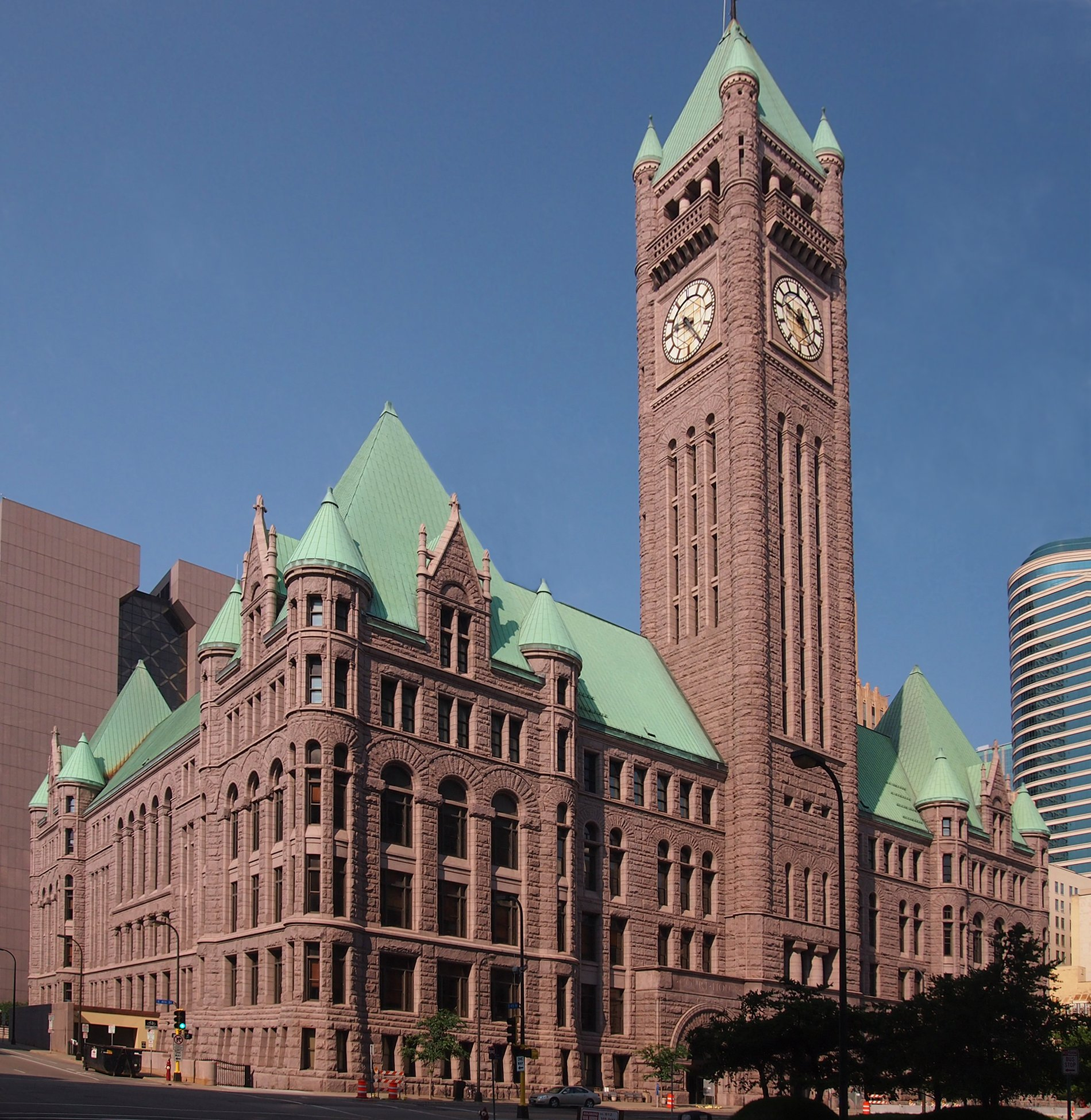 Minneapolis City Hall and Hennepin County Courthouse, 400 S 4th Ave, Minneapolis, Minnesota, USA. Viewed from the northeast.